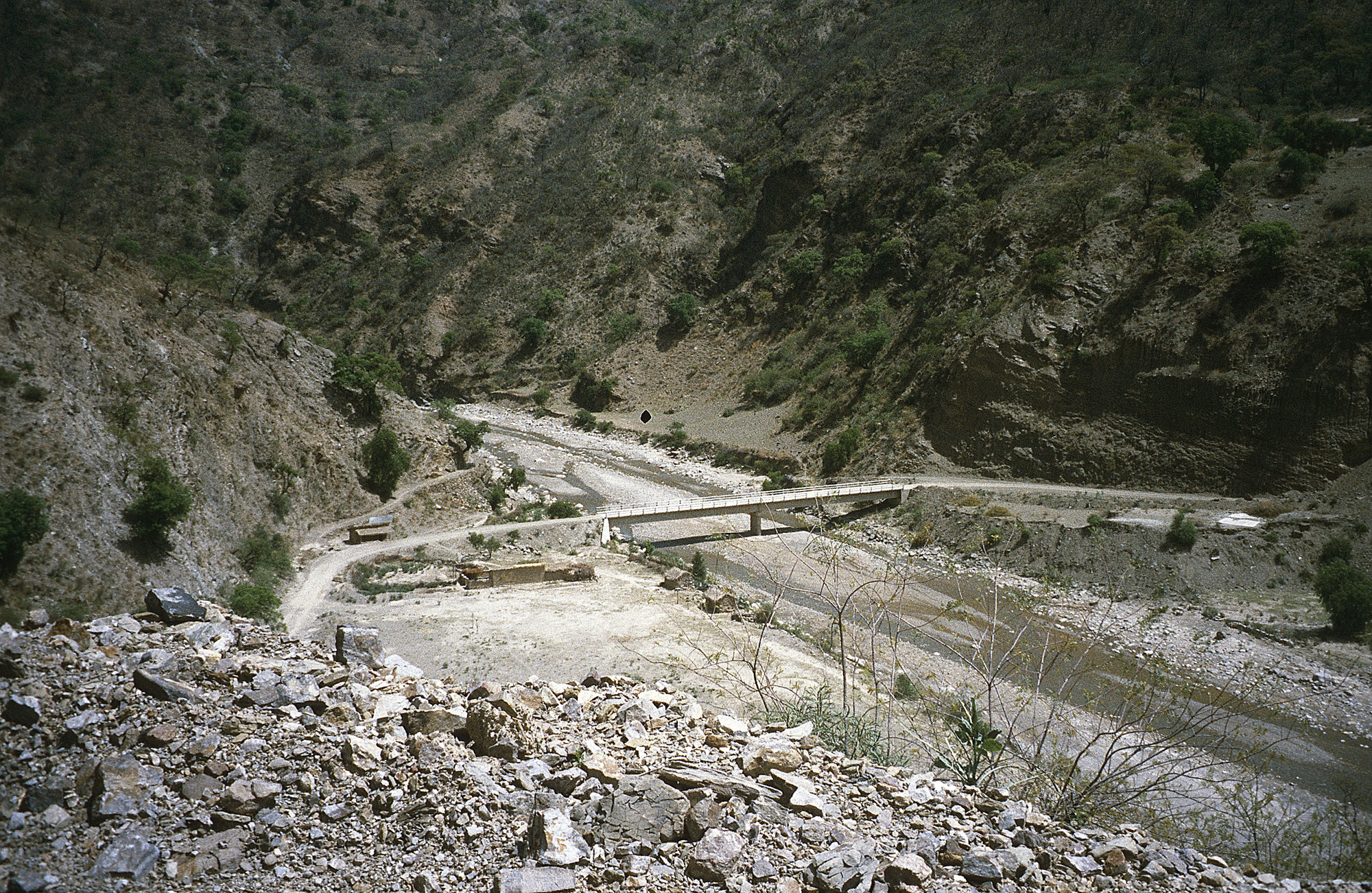 Bridge crossing Maran Mayu River